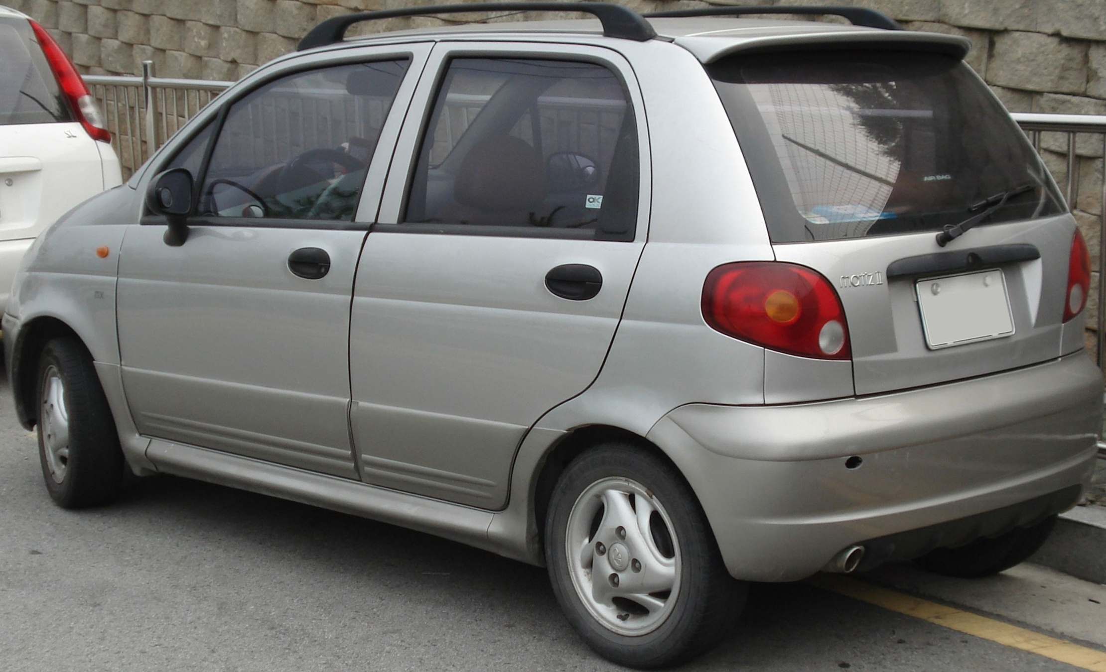 Daewoo Matiz Ⅱ